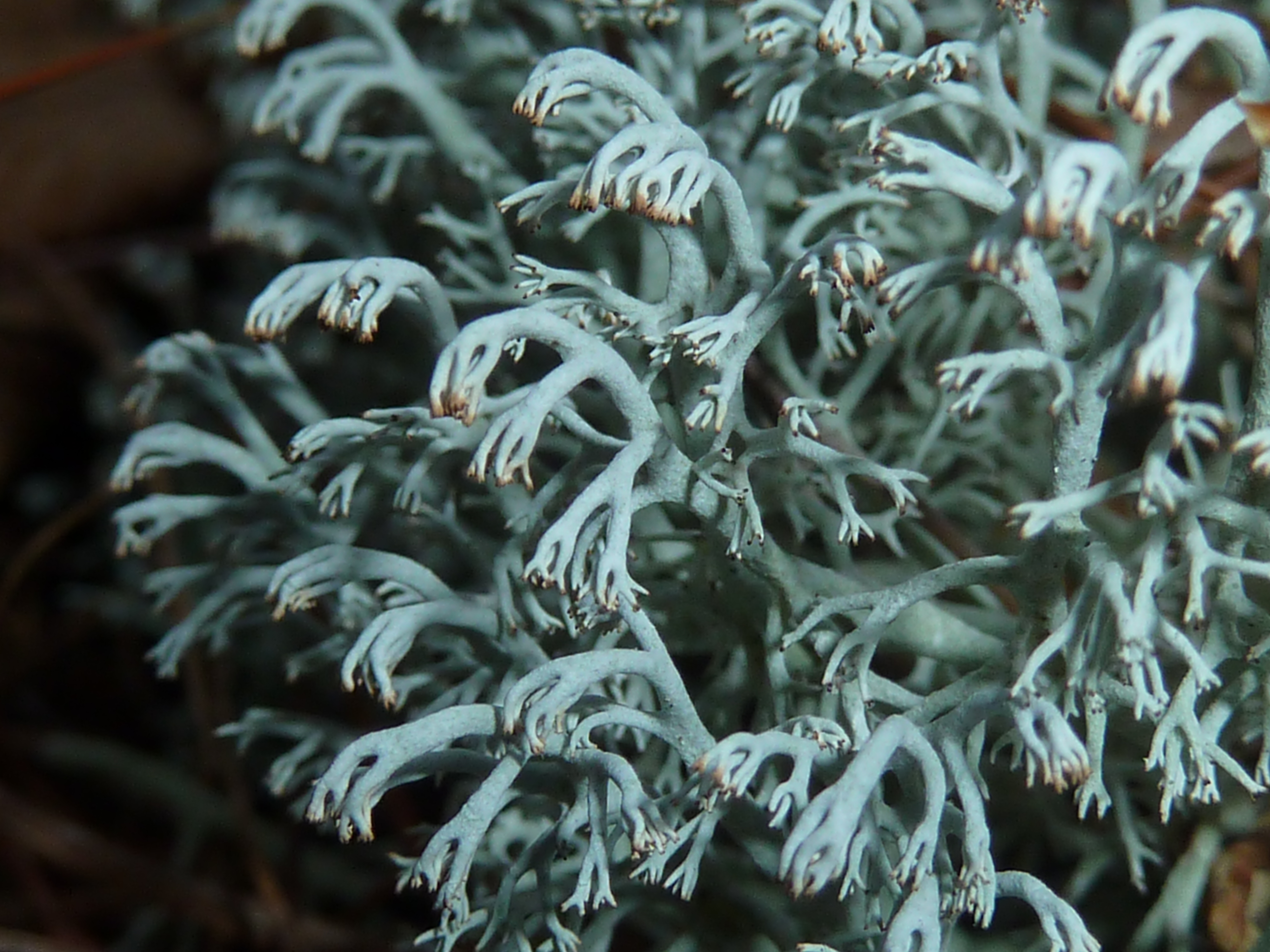 Reindeer lichen, amongst rocks, Pin Hill conservation land. Harvard, MA. Silver-gray thallus with deflected tips. p1000378